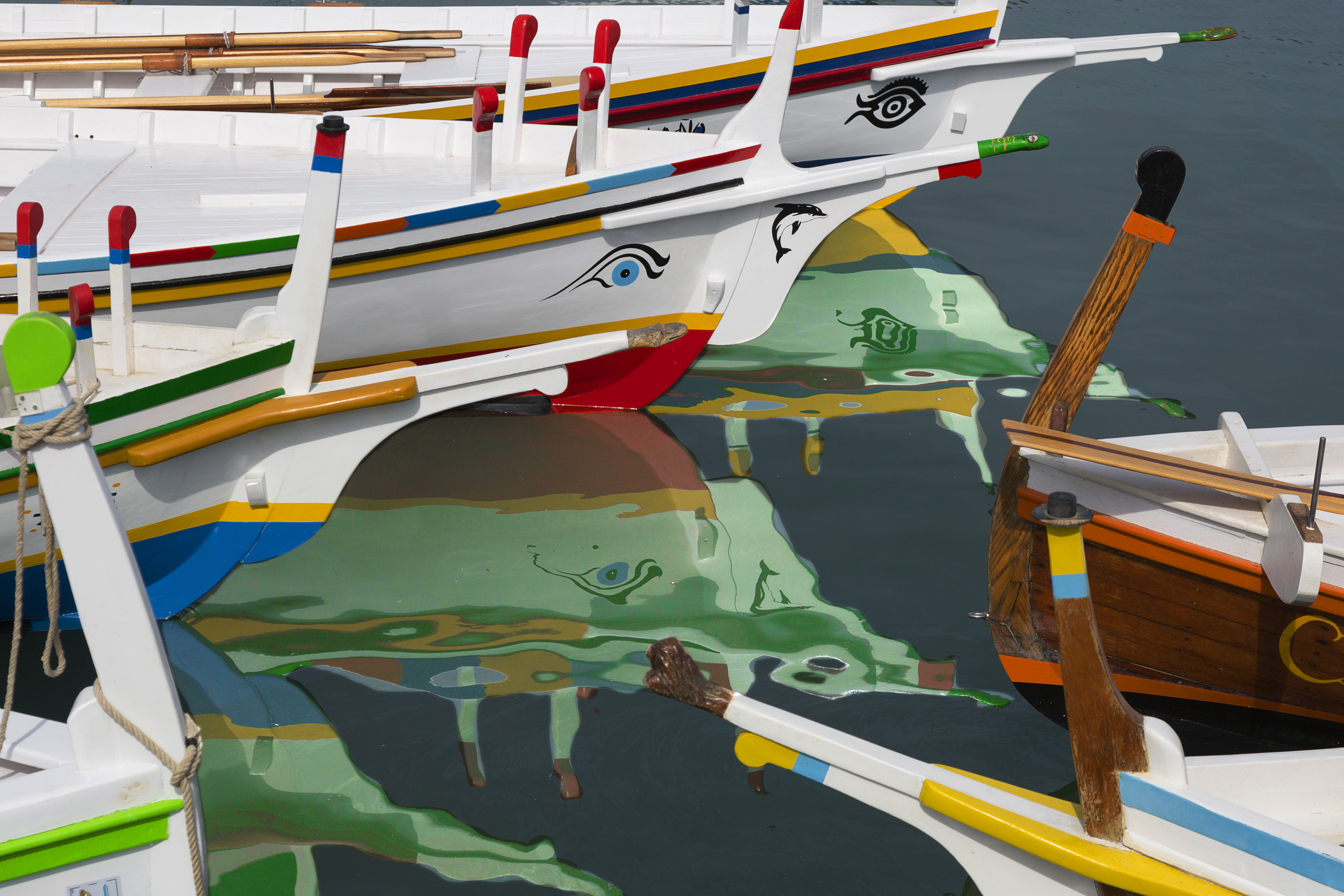 Puerto Deportivo El Candado, Málaga, Spain